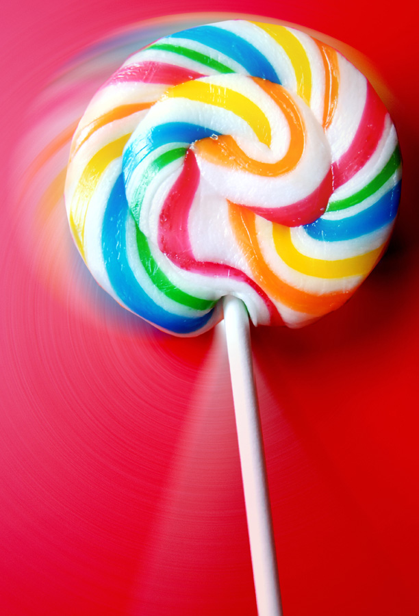 Lollipop in motion.